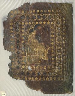 Illustration from Codex Beratinus